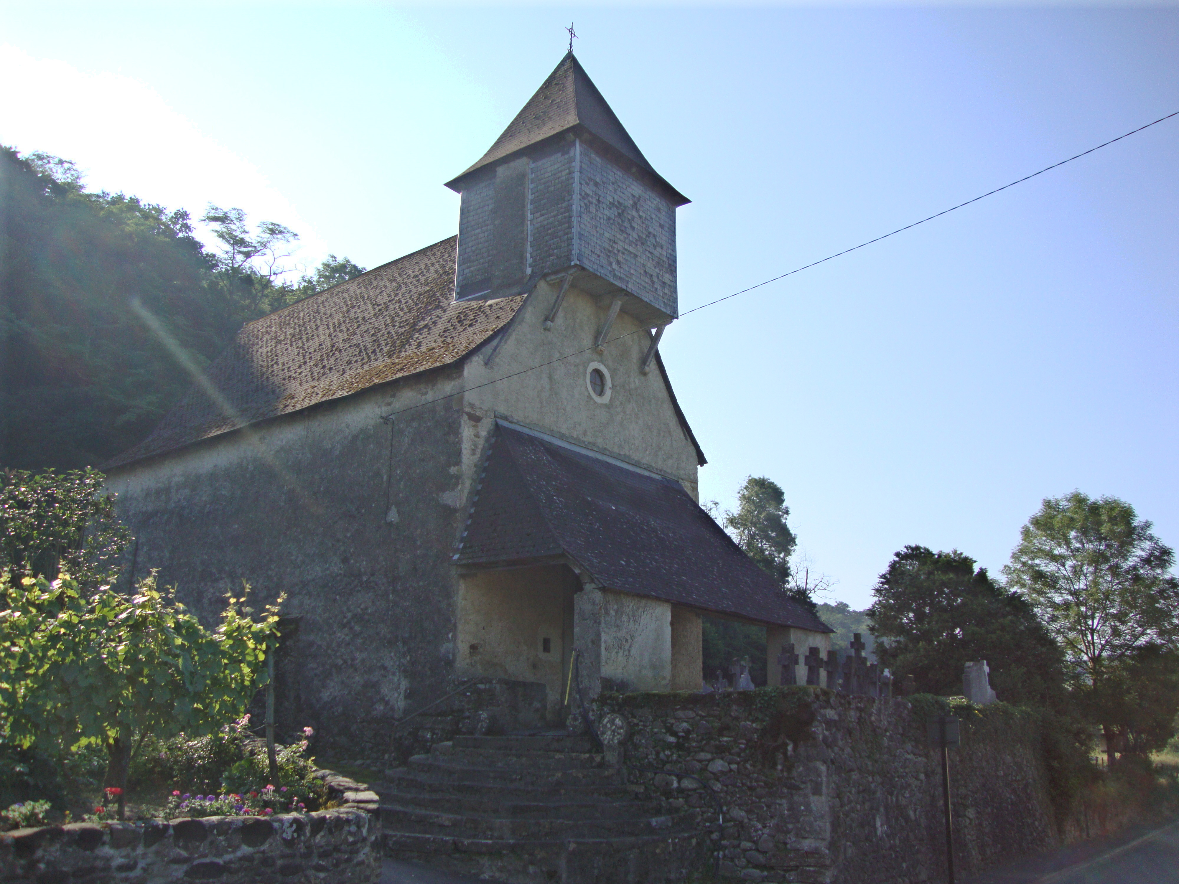 Saint-Etienne (Sauguis-Saint-Étienne, Pyr-Atl, Fr) church